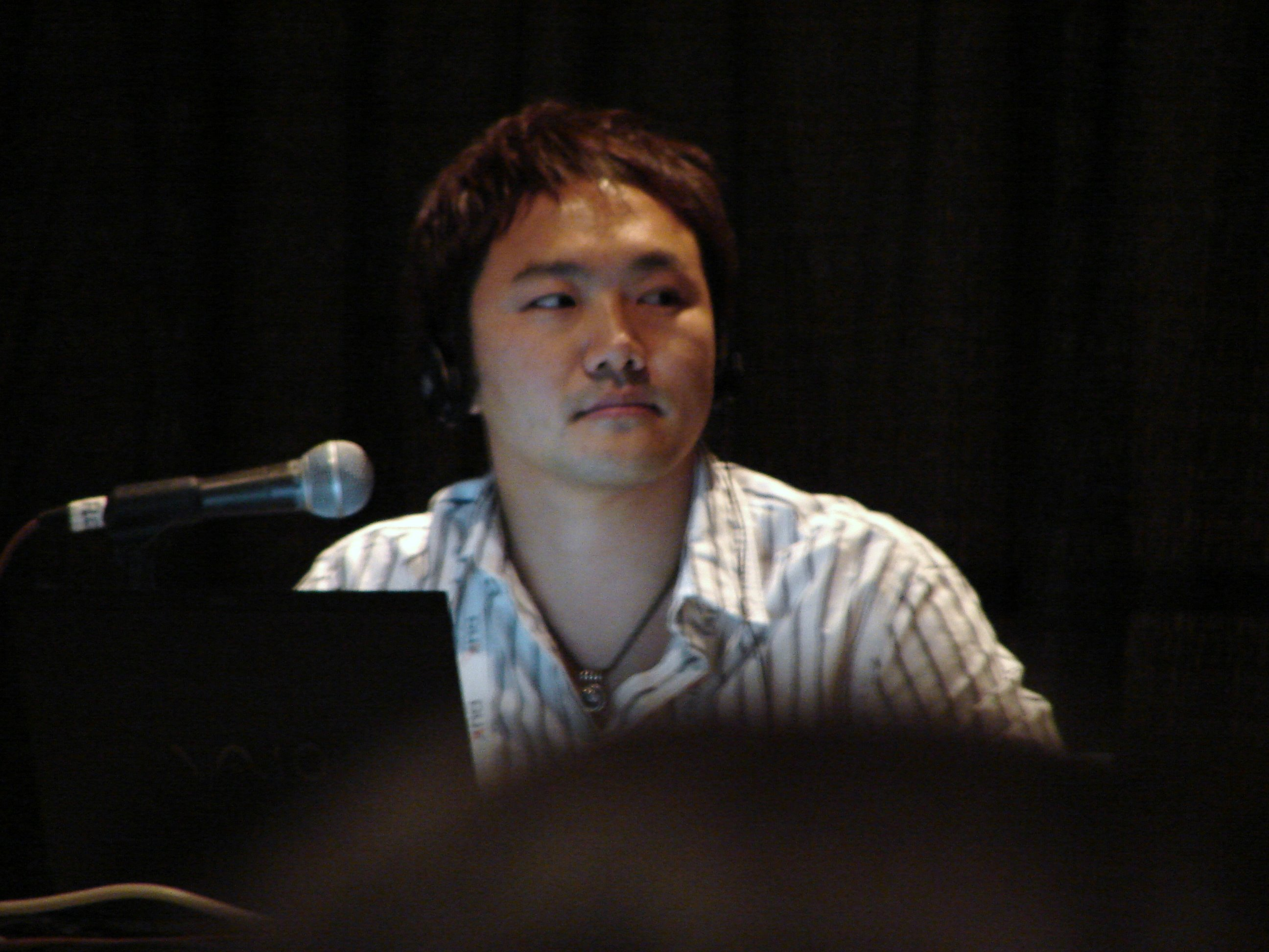 Tsutomu Kouno at the Game Developers Conference in 2007.